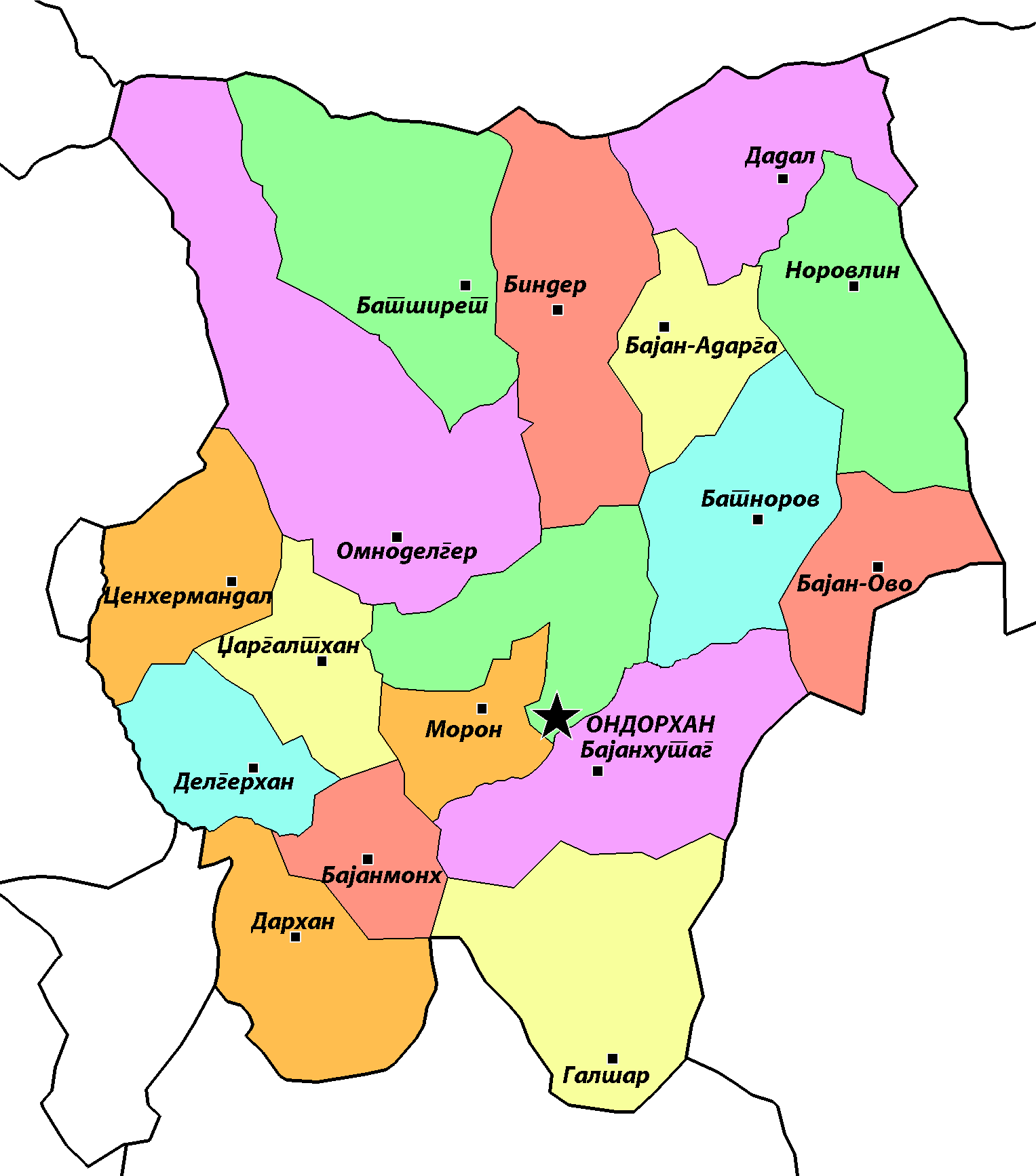 Translated map of Khentii Sum into Macedonian language